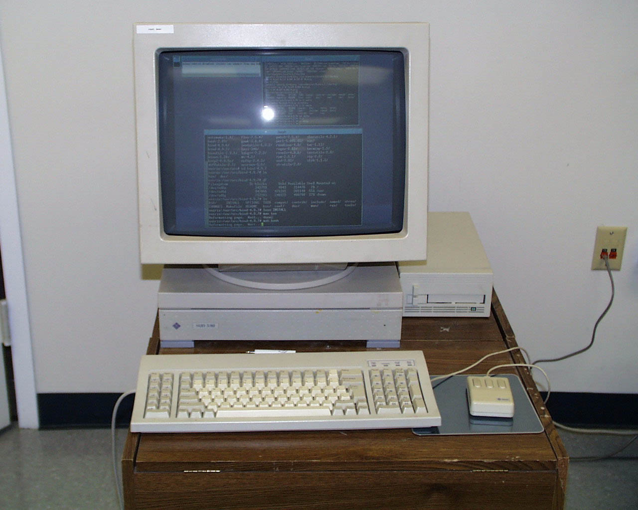 Image of a Sun 3/80 workstation with Sun 19 inch color monitor, Type 3 keyboard/optical mouse & pad, and QIC-150 tape drive. Self-created image of system owned by contributor